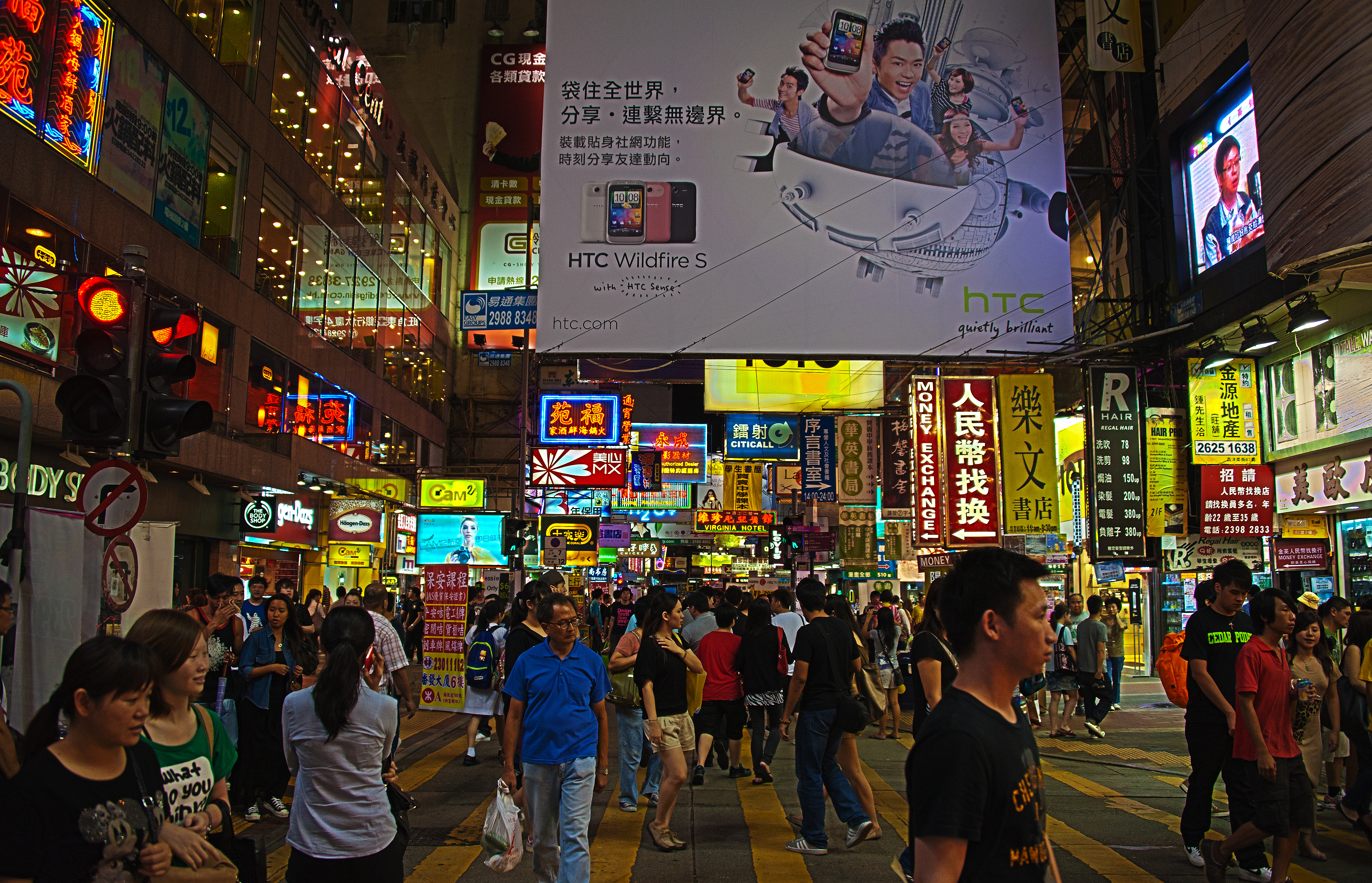 hong kong mong kok night 2011 The Body Shop store visible on the picture is located at 51 Sai Yeung Choi Street South, at the corner with Nelson Street.